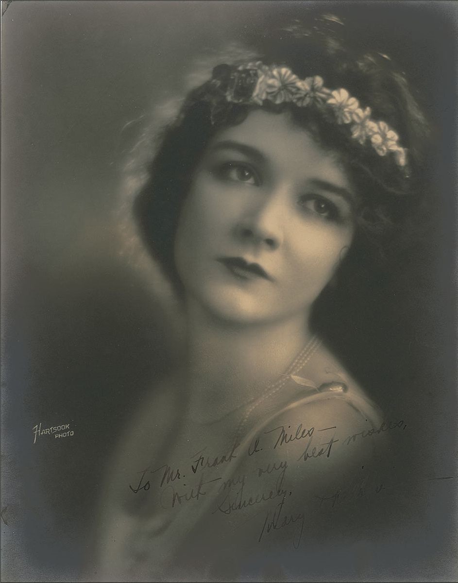 Portrait of American actress Mary Philbin by American photographer Fred Hartsook.